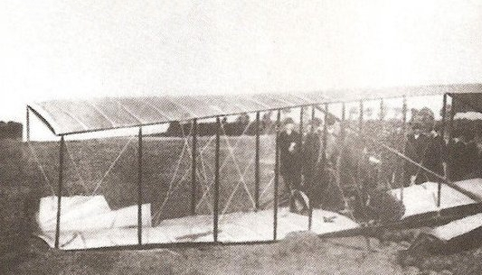 Ágoston Kutassy's crashed Farman III plane